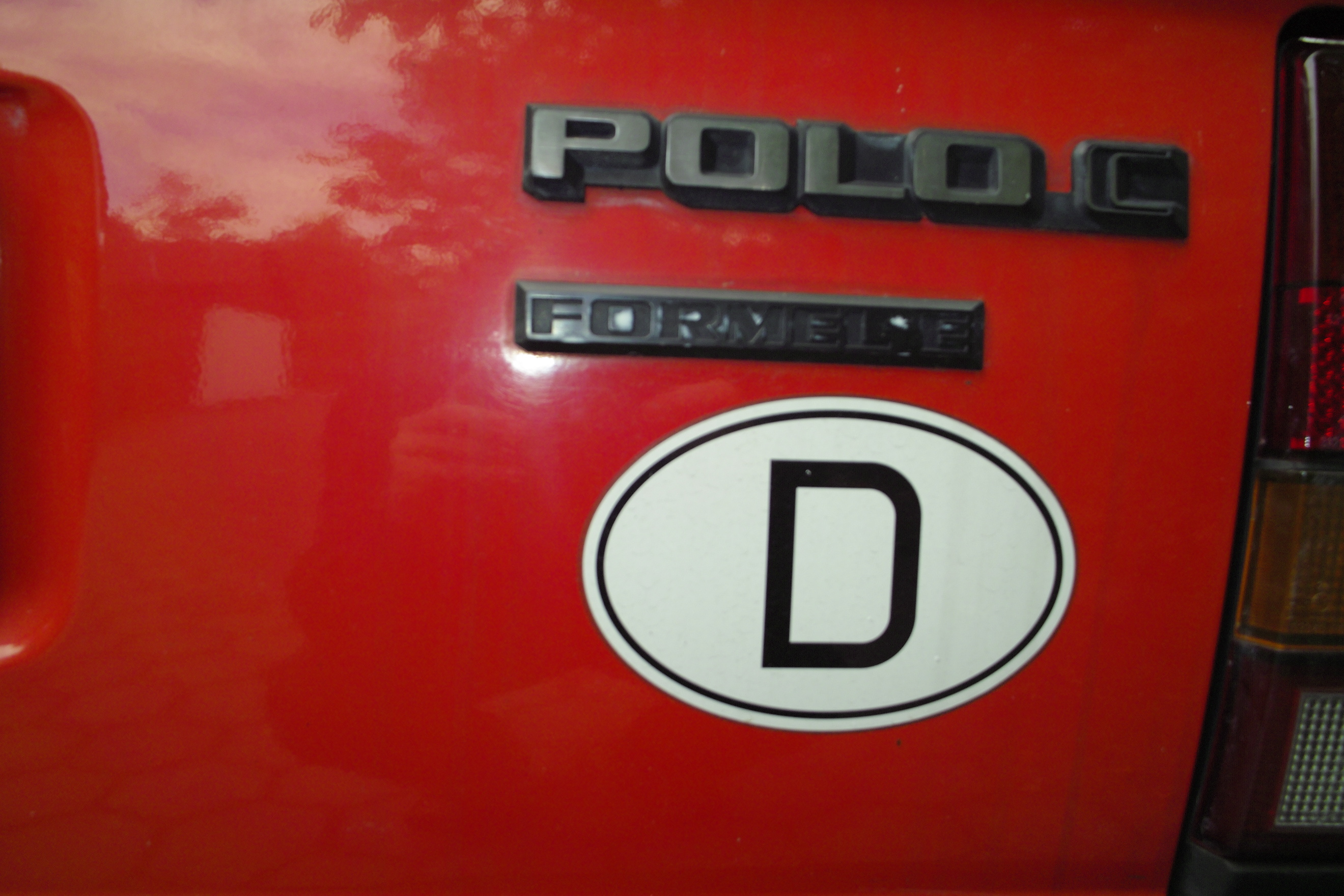 Plate of a VW Polo 86c showing the "Formel E" version